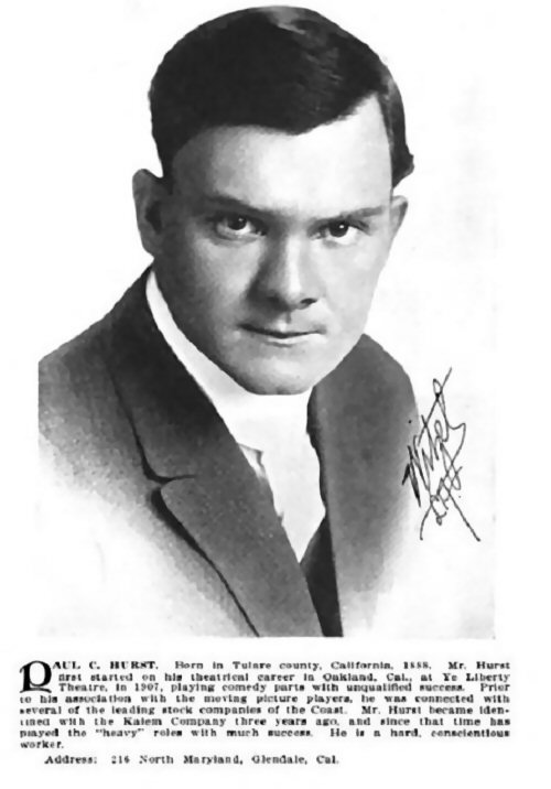 Actor-Director Paul Hurst 01